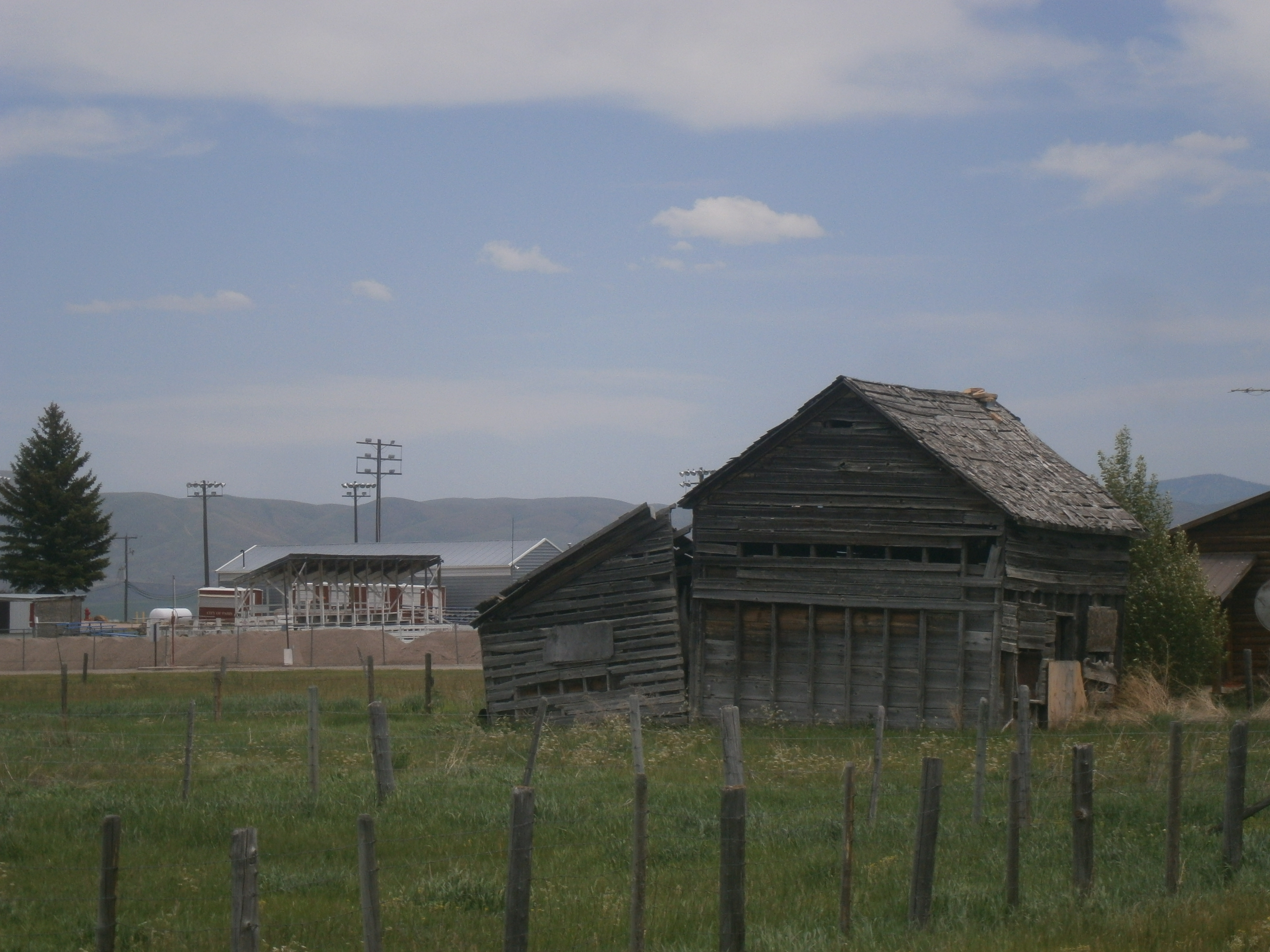 The Grunder Cabin, a historic cabin in Paris, Idaho, United States.